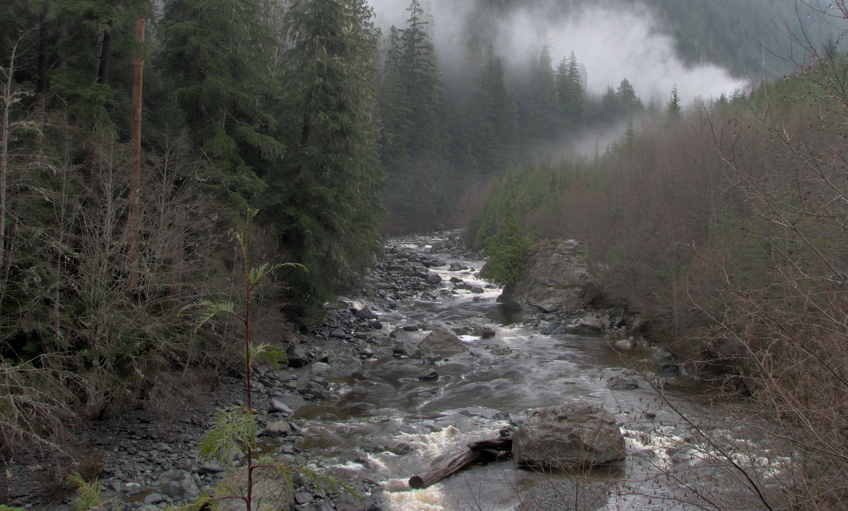 Loss Creek at the point that Noyse Creek empties into it. This image was made by combining three exposures into a HDR image, and then developing it into an 8 bit image.